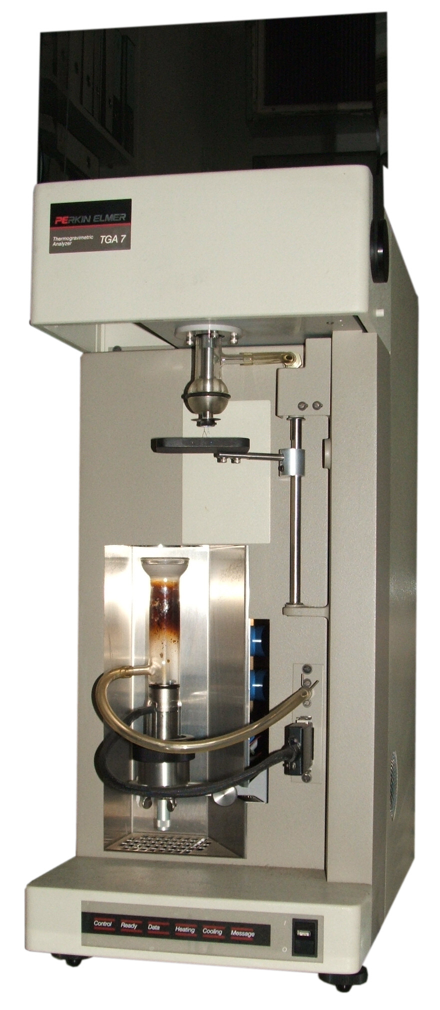 Thermogravimetric analyser (TGA)